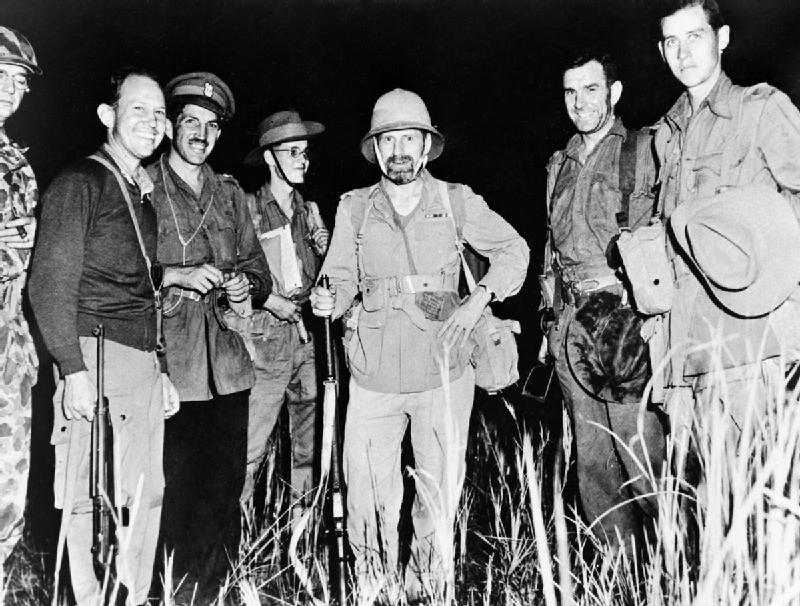 General Orde Wingate (centre) with other officers at the airfield code-named "Broadway" in Burma awaiting a night supply drop. Left to right: Colonel Frank Merrill Colonel J R Alison Brigadier J M Calvert Captain Borrow (Wingate's ADC) General Wingate Lieutenant Colonel W Scott Major Francis Stewart